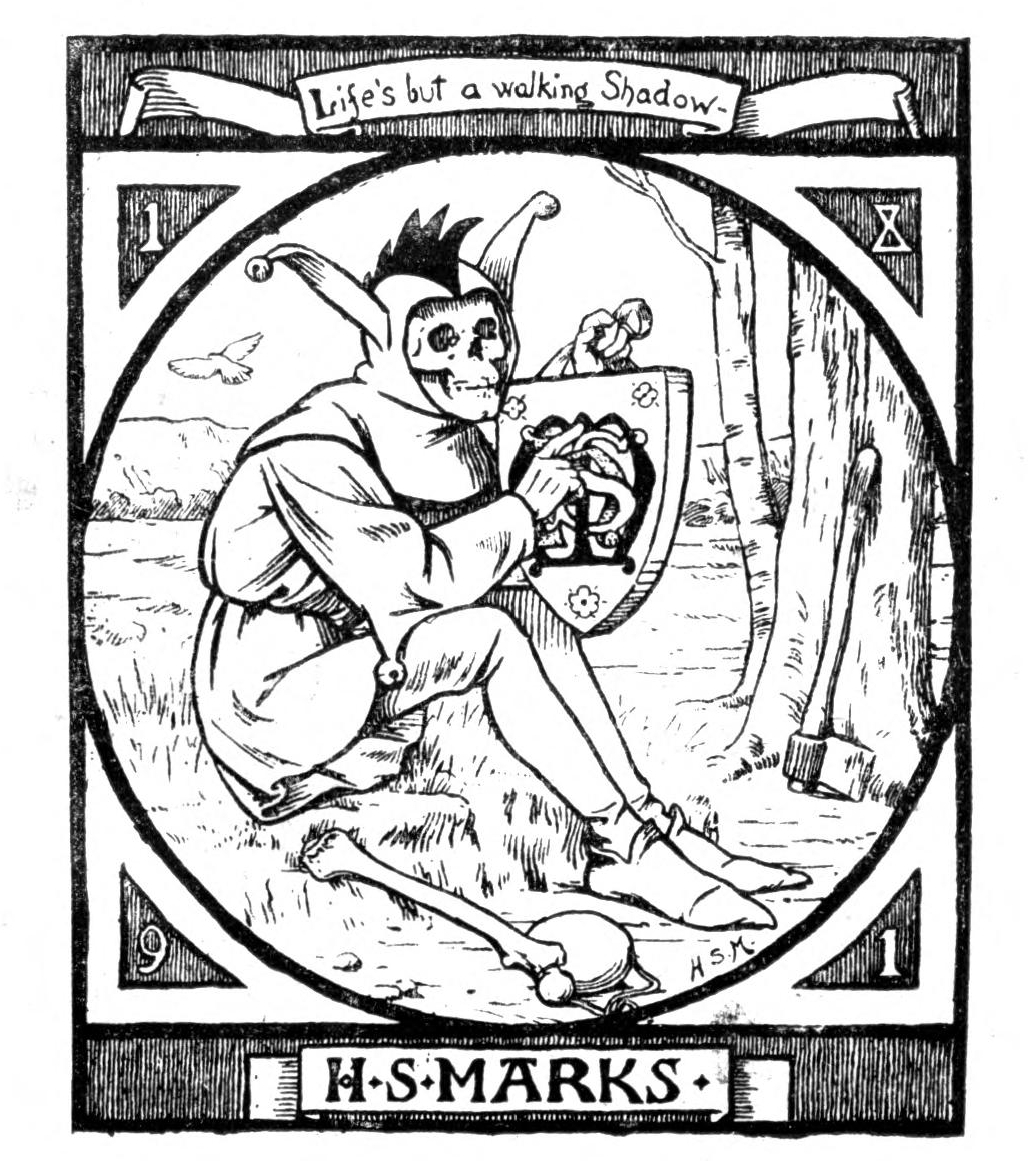 Bookplate of Henry Stacy Marks